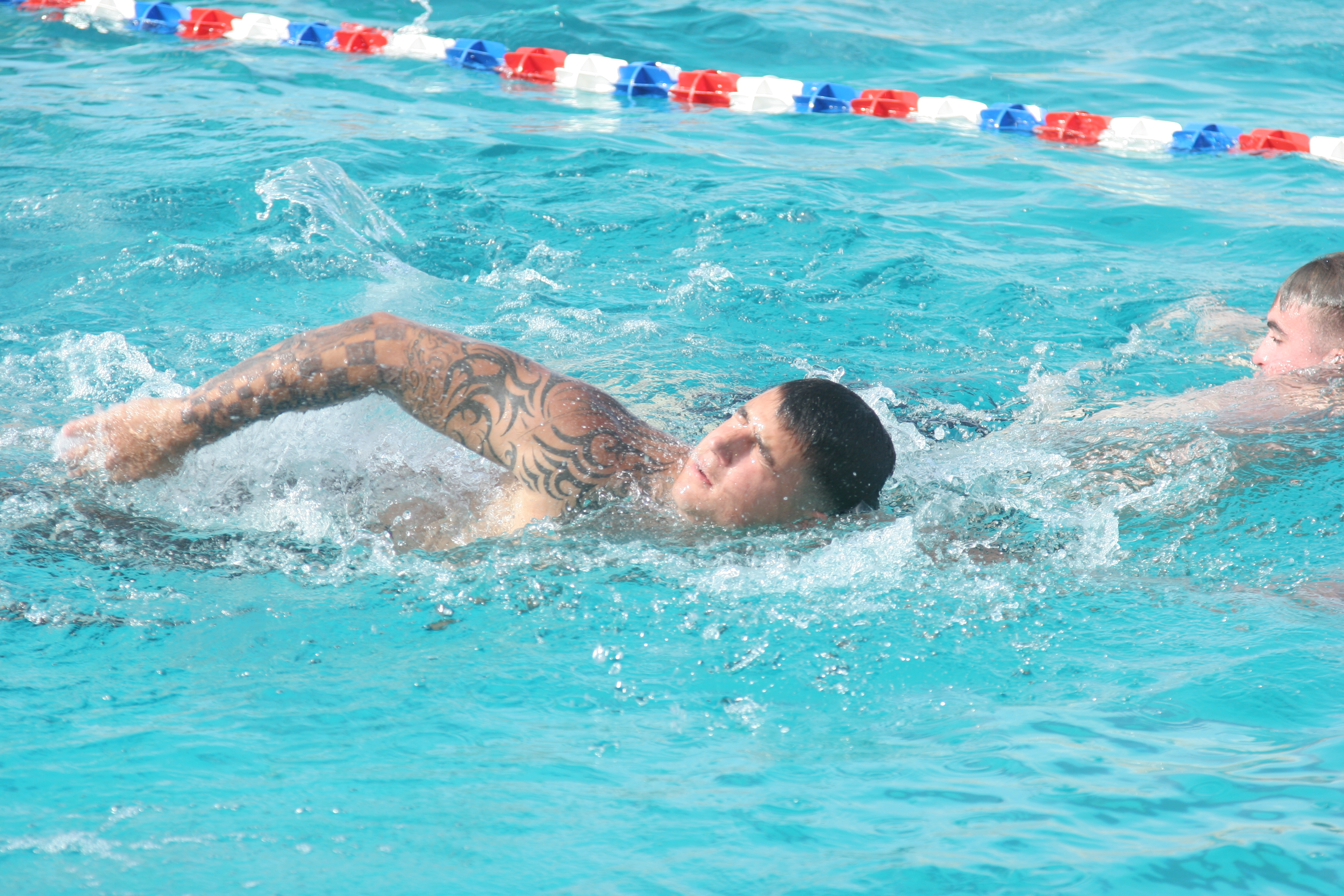 U.S. Marine Corps Lance Cpl. Michael Ludvik, with India Company, 3rd Battalion, 7th Marine Regiment, swims the front crawl stroke during aquatic training in the base swimming pool at Marine Corps Air Ground Combat Center, Twentynine Palms, Calif., May 19, 2009. Aquatic training helps Marines strengthen their skills in the water between swim qualifications.